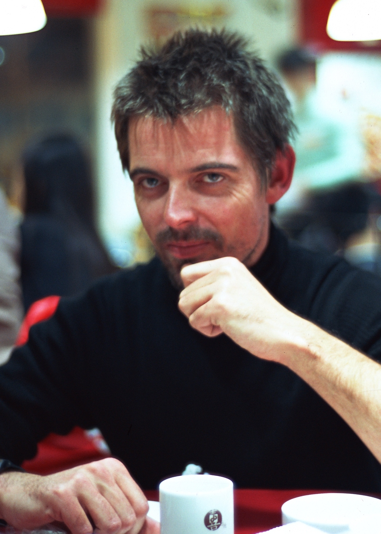 Portrait of the Artist Matt Hope, Beijing, China, November 27, 2008